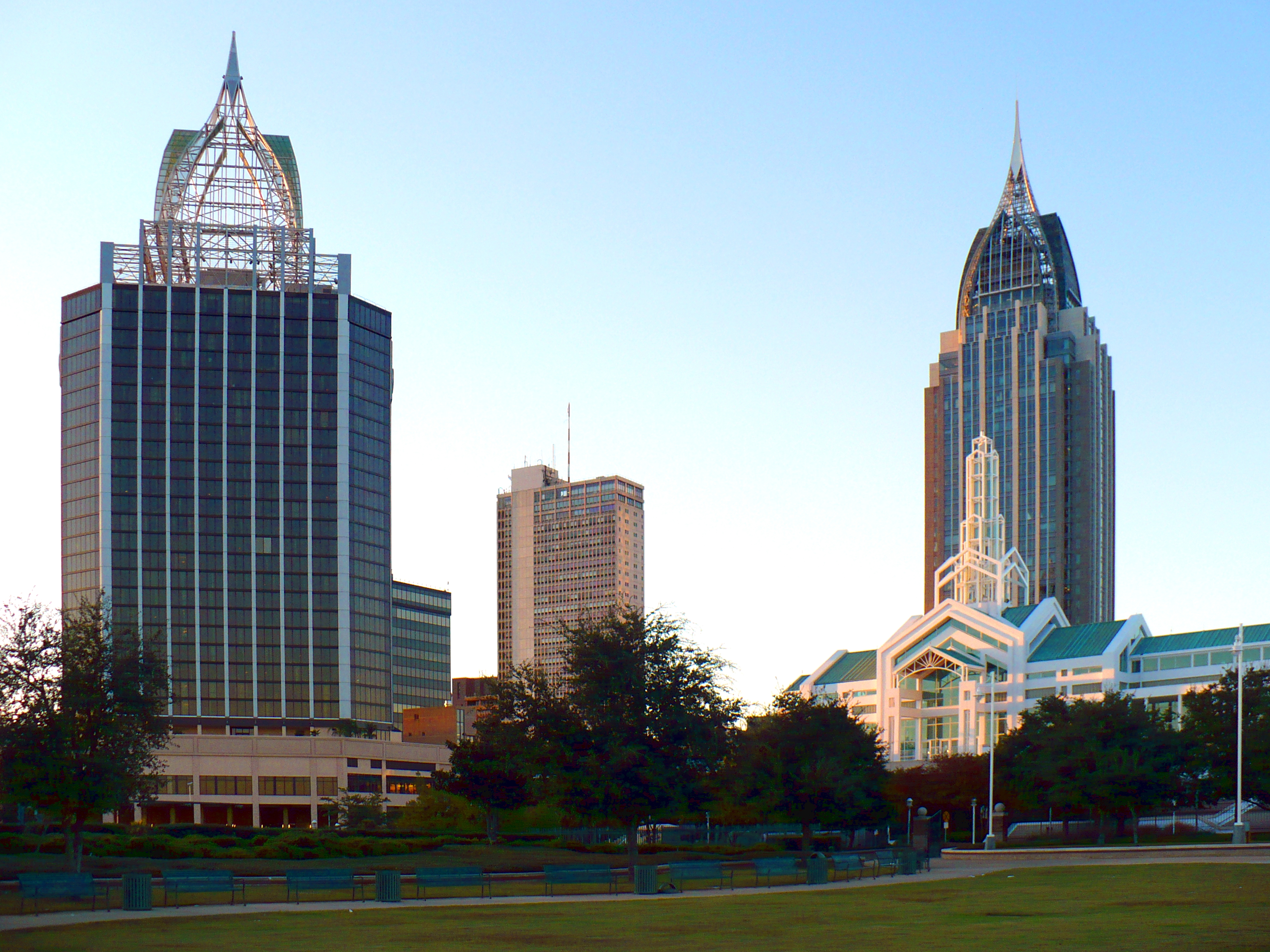 View of downtown Mobile, Alabama. Taken from Cooper Riverside Park, adjacent to the Arthur C. Outlaw Convention Center.